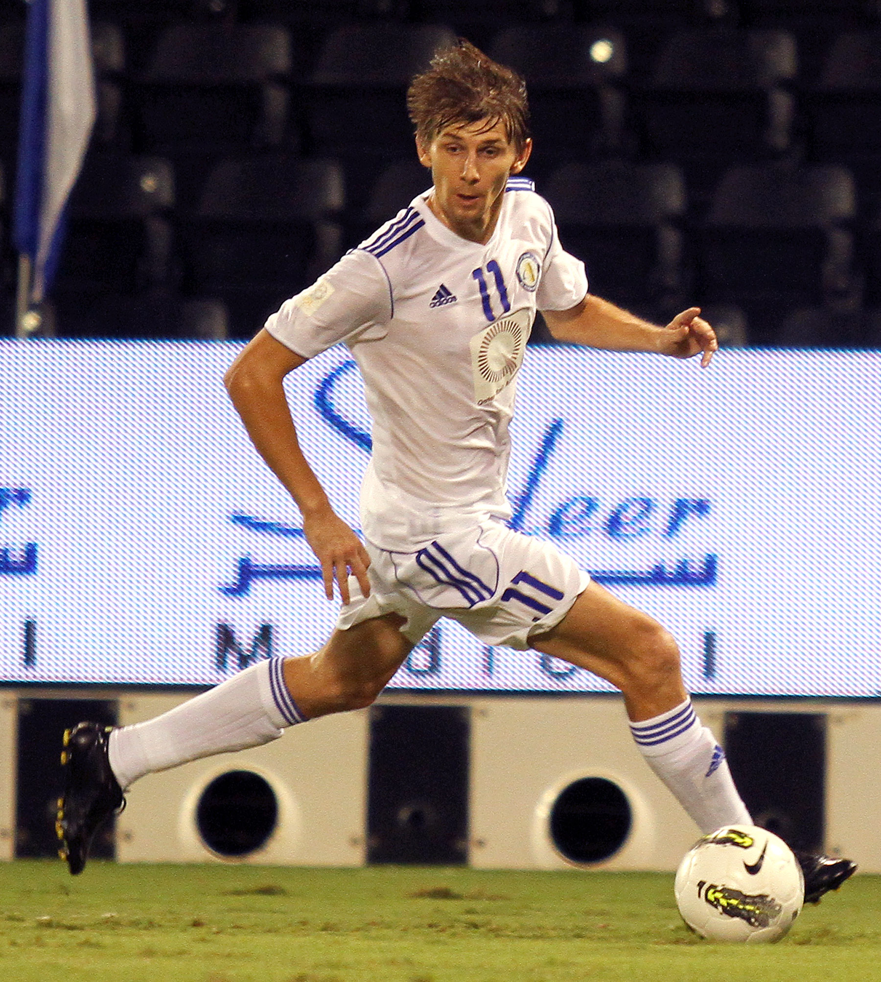 Al Khor's Polish professional Euzebiusz Smolarek runs with the ball during their Qatar Stars League match.